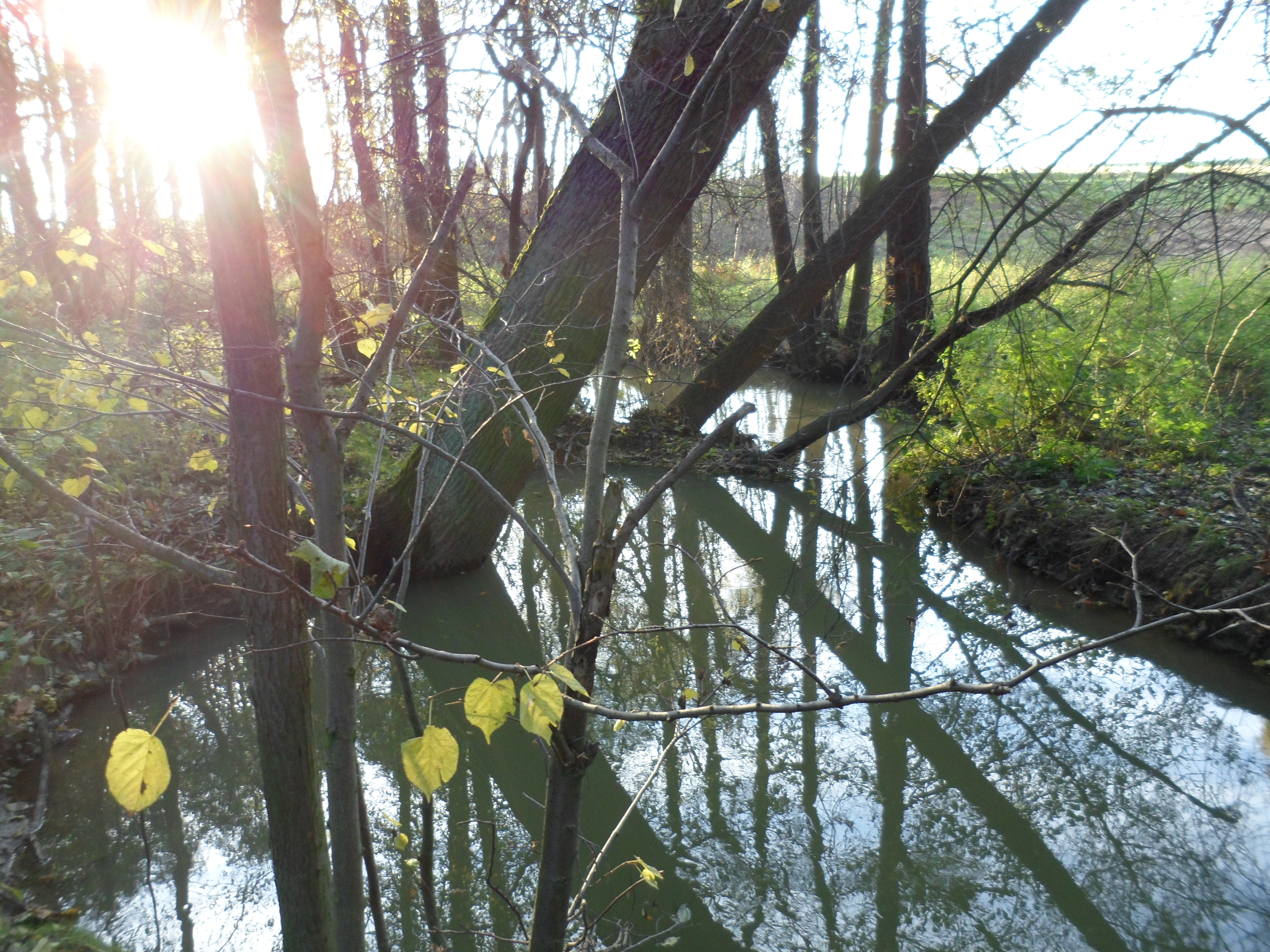 Gruna near Frankenthal